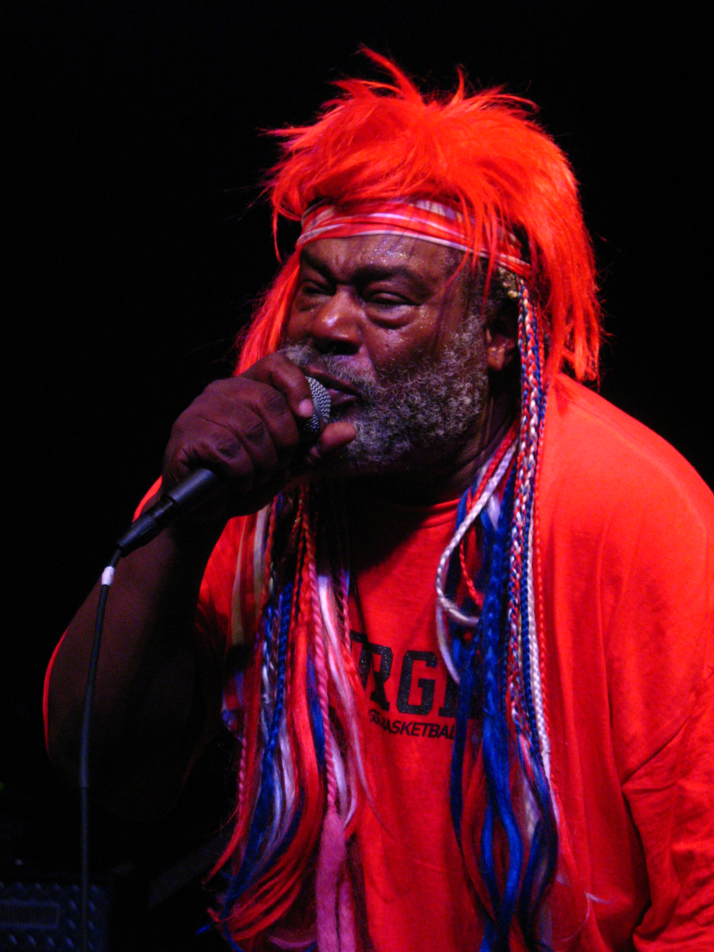 George Clinton at the Neighborhood Theatre in Charlotte, NC